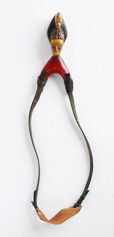 A Janiform heddle-pulley sling shot in the permanent collection of The Children’s Museum of Indianapolis.